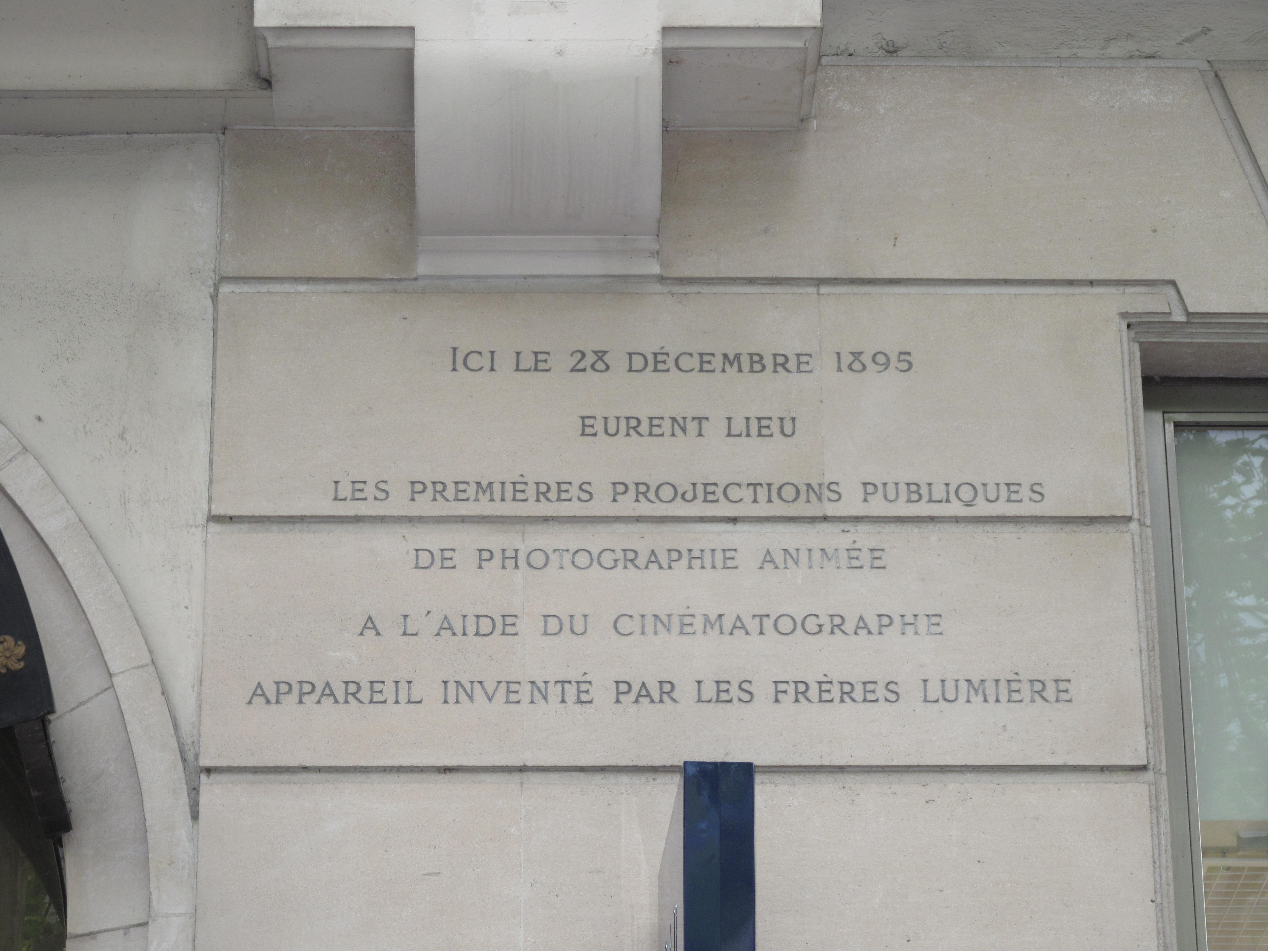 The hotel where were shown the first public movies by Auguste and Louis Lumière in 1895 ; 16, boulevard des Capucines, Paris